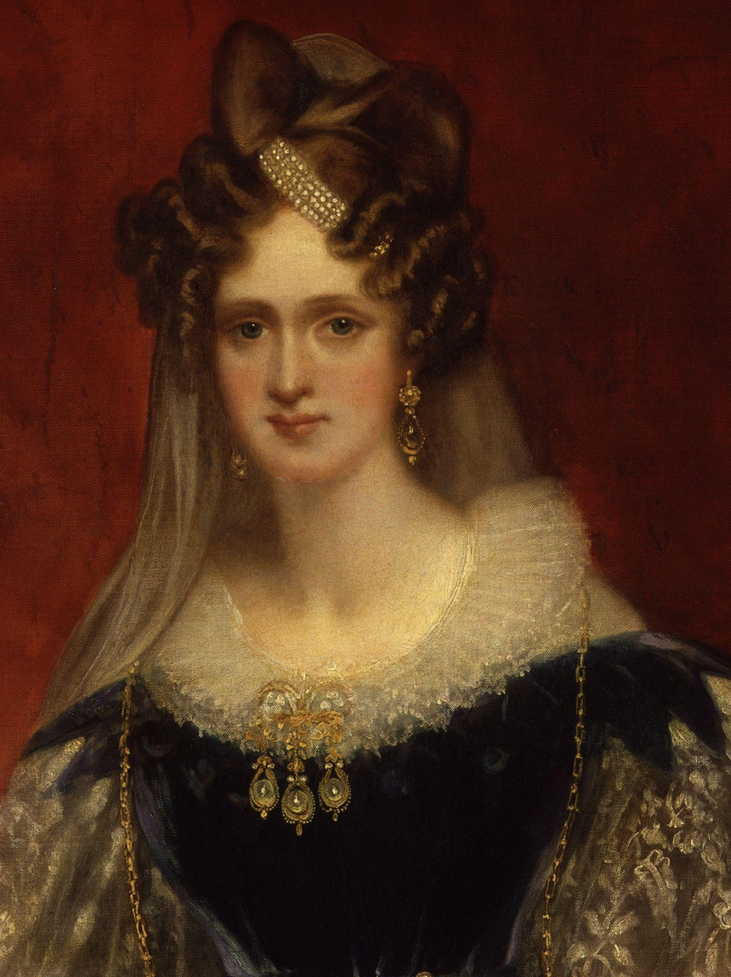 Adelaide of Saxe-Meiningen by Sir William Beechey, c. 1831